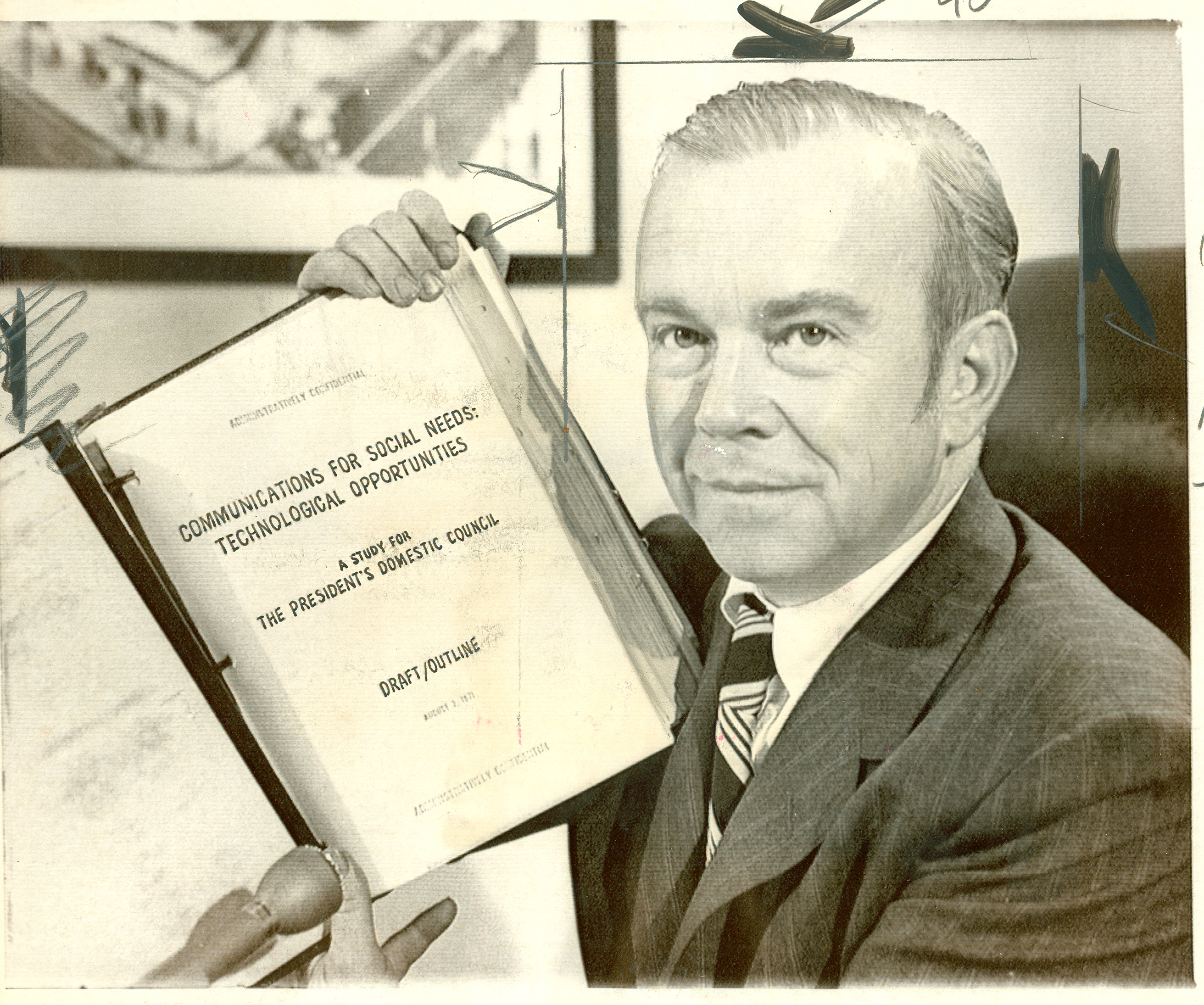 Former United States Representative from Pennsylvania William S. Moorhead.